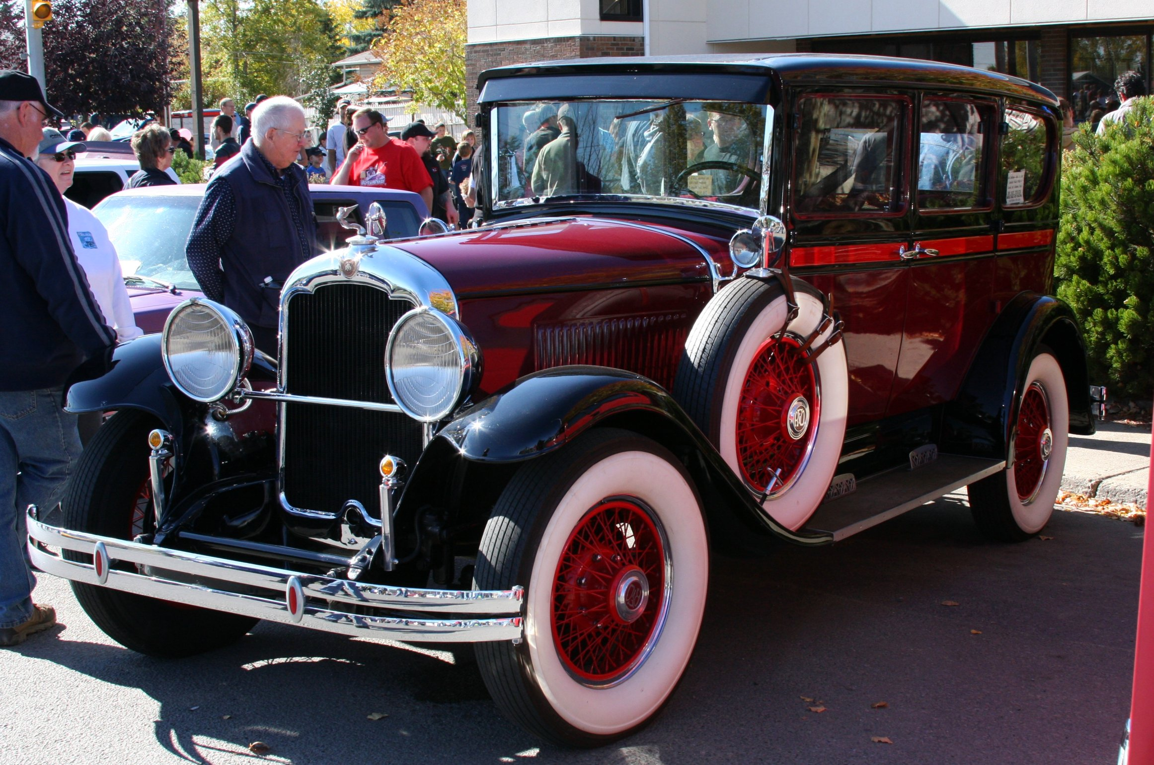 Reo Flying Cloud